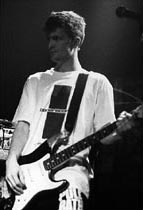 Mike Morasky playing live with Steel Pole Bath Tub